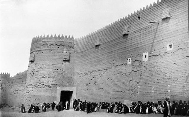 A photo of Barzan Palace in Ha'il, 1914, taken by Gertrude Bell (1868 – 1926)